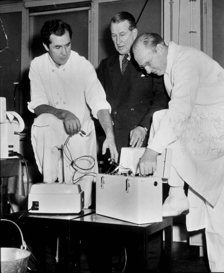 Rune Elmqvist made the first pacemaker and Åke Senning implanted it. Senning trained under Clarence Crafoord. They all worked closely together in Stockholm.From left to right, you can see Senning, Elmqvist & Crafoord. The picture was taken in 1954. It was published in Ann Thorac Surg. 2004 Jun;77(6):2250-8.